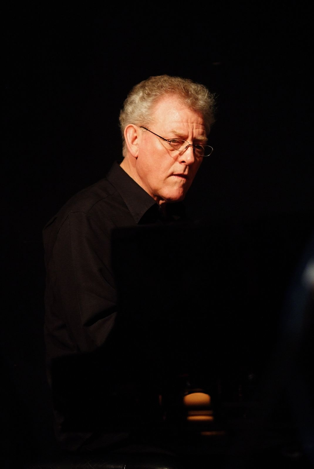 John Taylor (English jazz pianist)